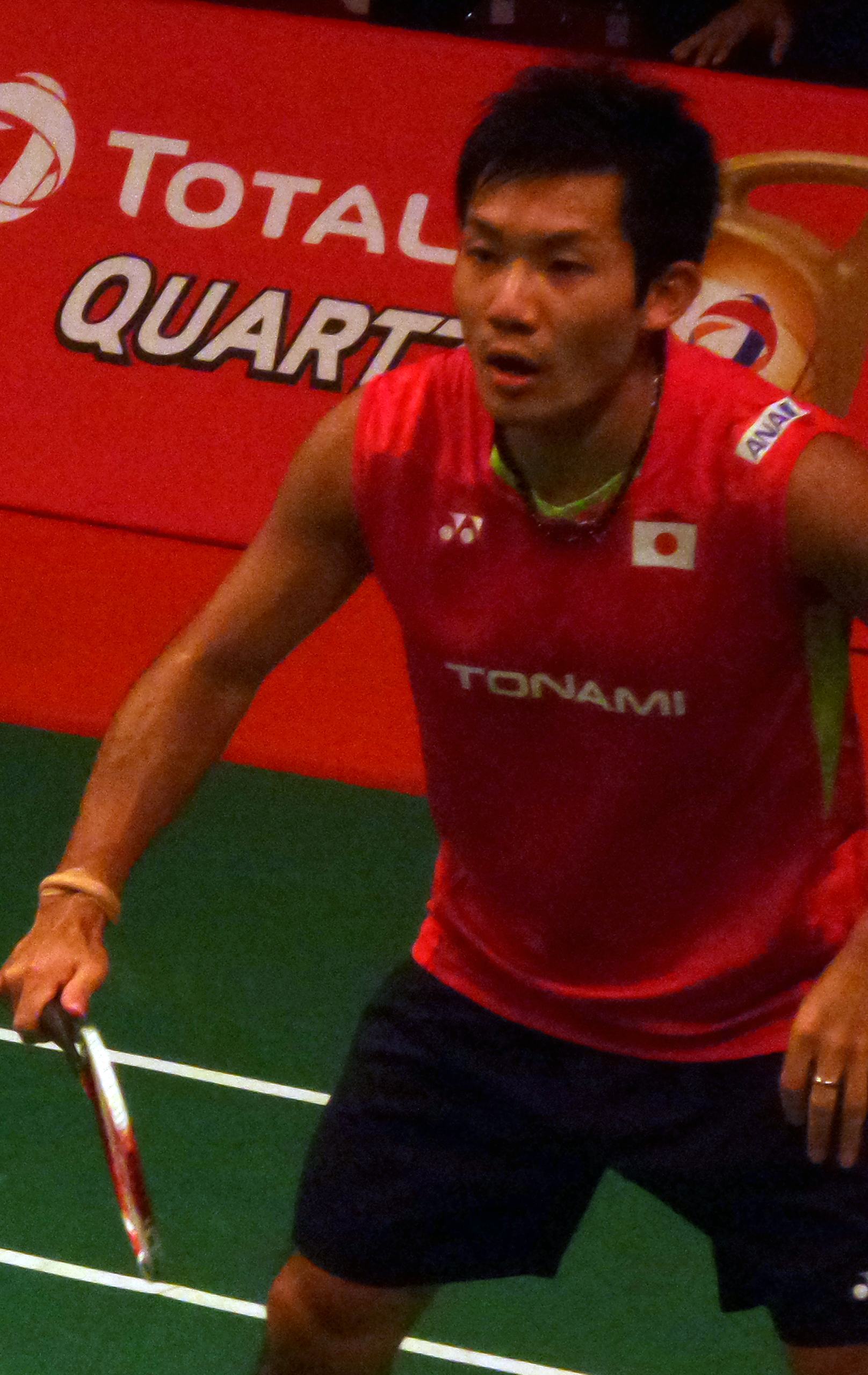 中文（香港）: Keigo Sonoda (園田 啓悟) This picture is cropped from File:TOTAL_BWF_World_Champs_2015_Day_2_T_Kamura_K_Sonoda.jpg by Griff88.